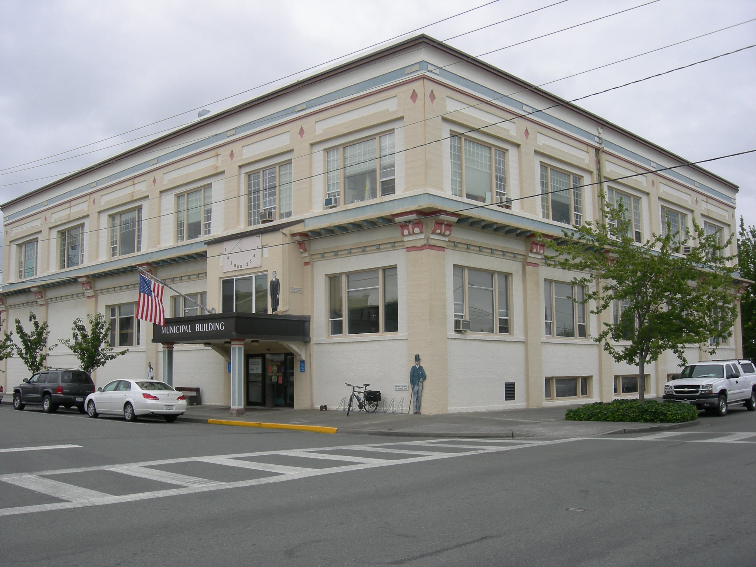 Municipal Building, 6th and Q, Anacortes, Washington. Former Elks Club.